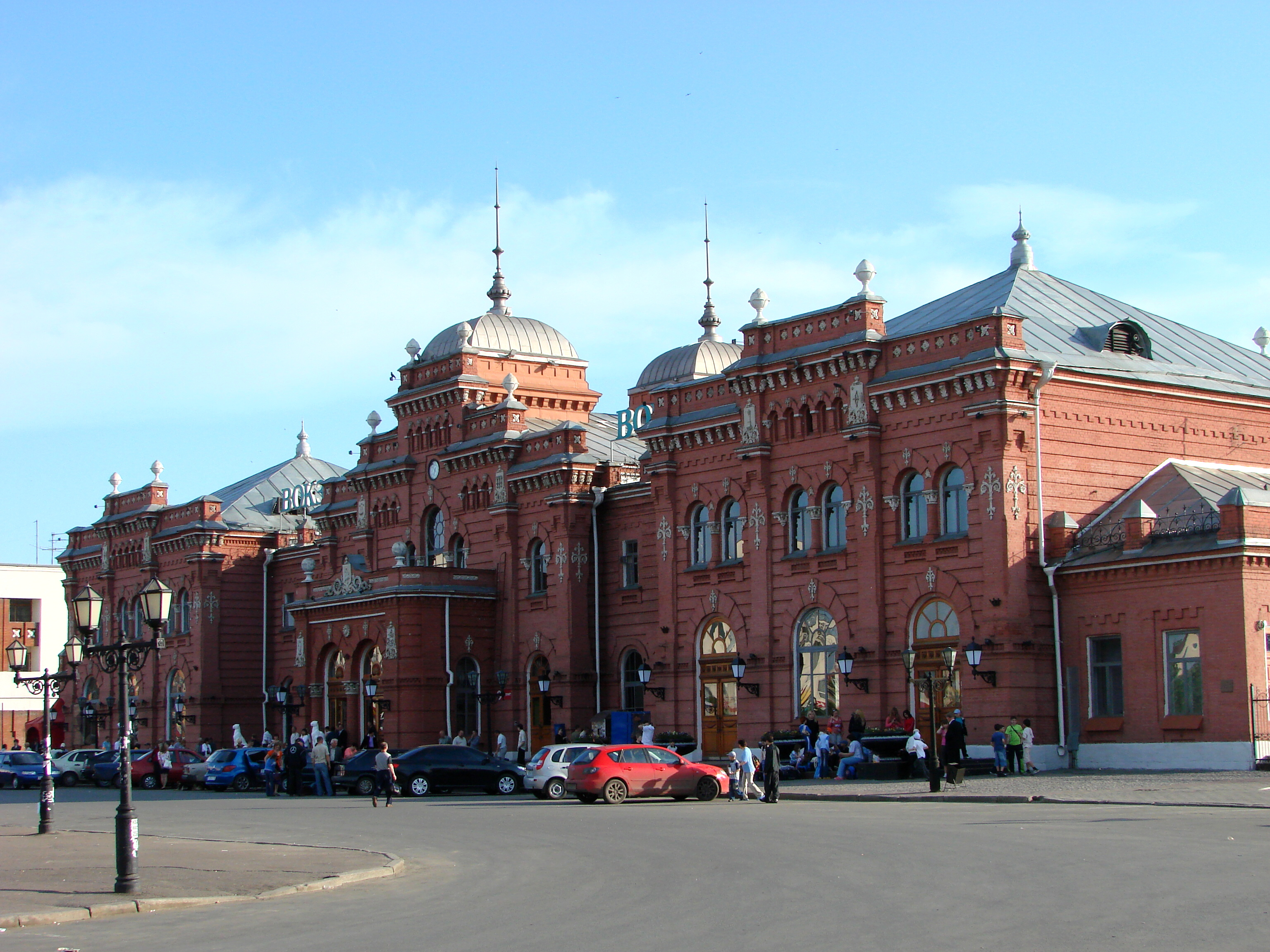 Restored facade of the train station in Kazan, Russia. June 2008.